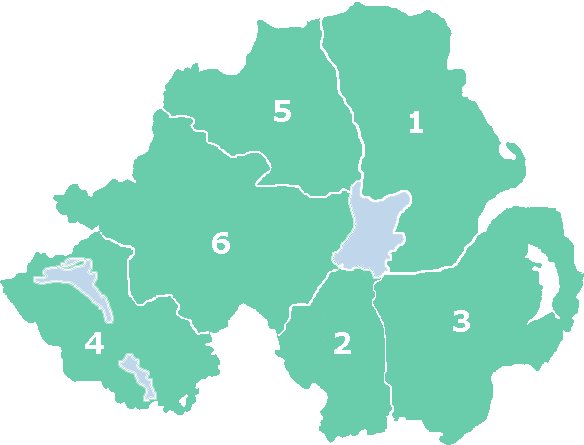 Couties of Northern Ireland (numbered)